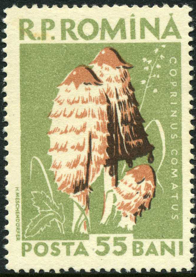 Romanian stamp, 1958, series of mushrooms, Coprinus Comatus